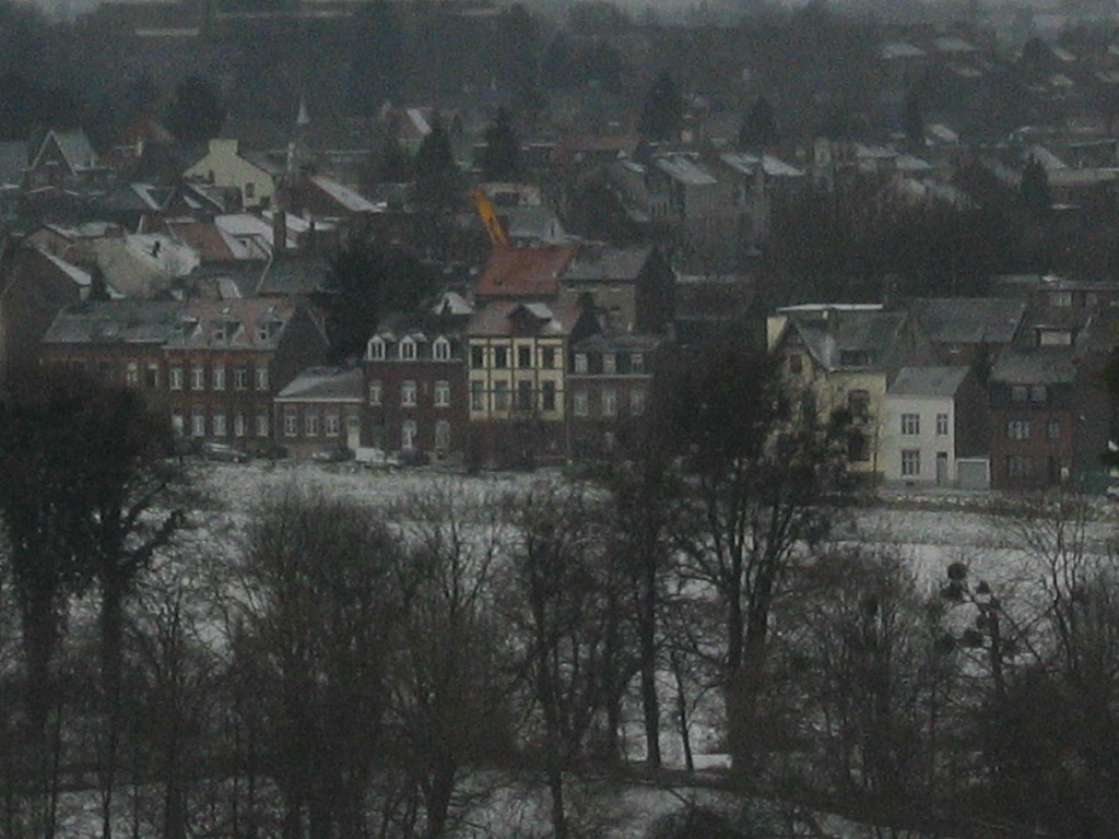 The breathtaking view of Vaals, from the west end of Aachen, Germany